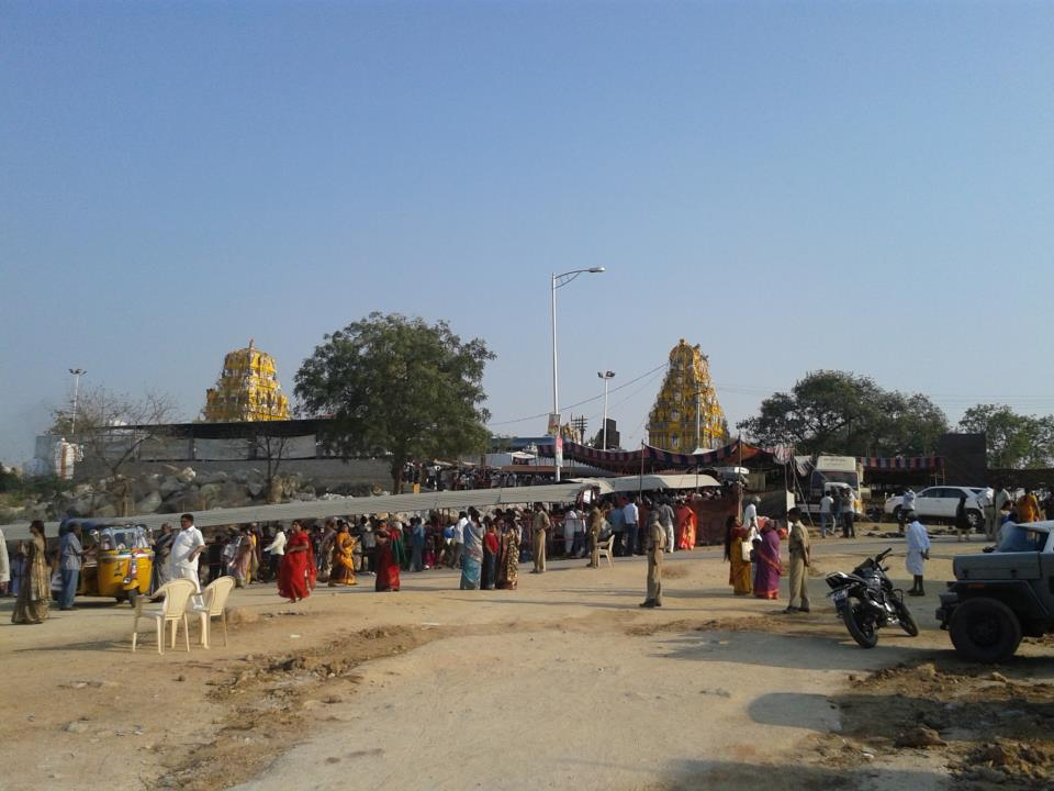 Bhramarambhika Mallikharjuna Swamy Temple